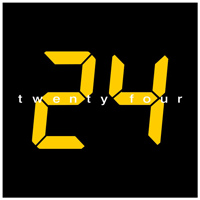 24 (TV series) logo.